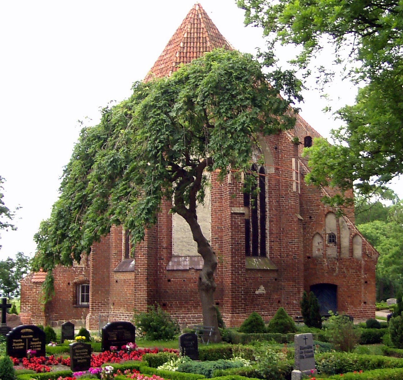 Gothic church Saal, Vorpommern, Germany